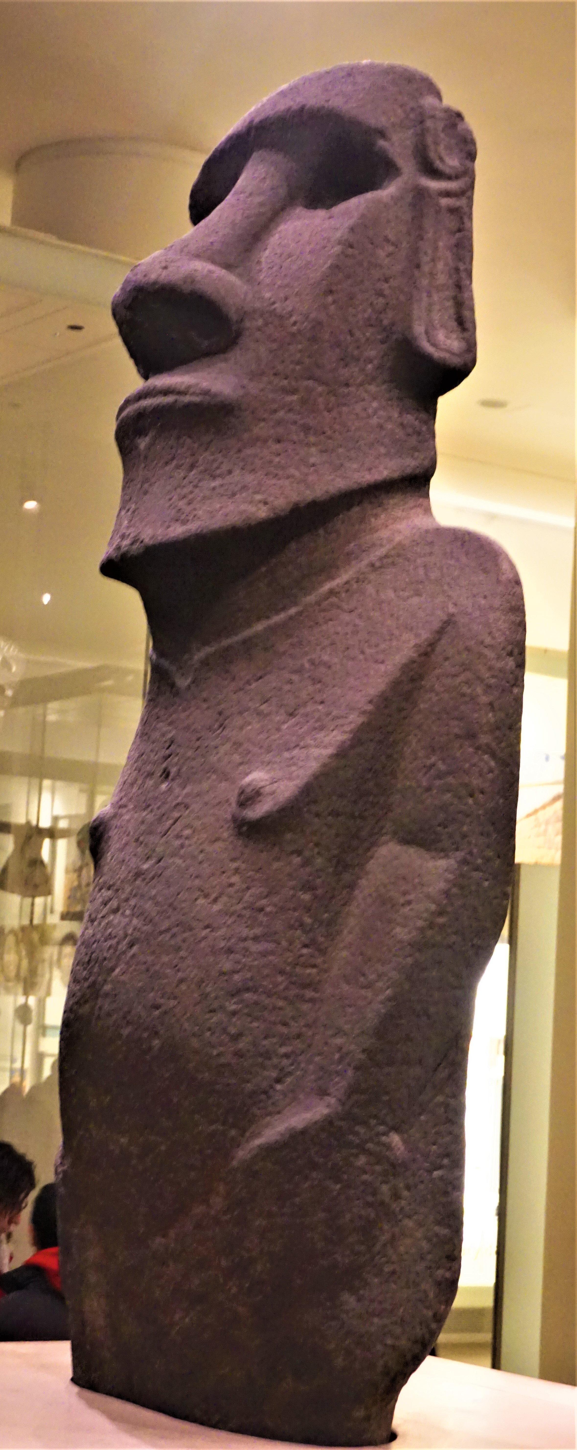 Hoa Hakananai'a - Moai from Easter Island - British Museum - for details